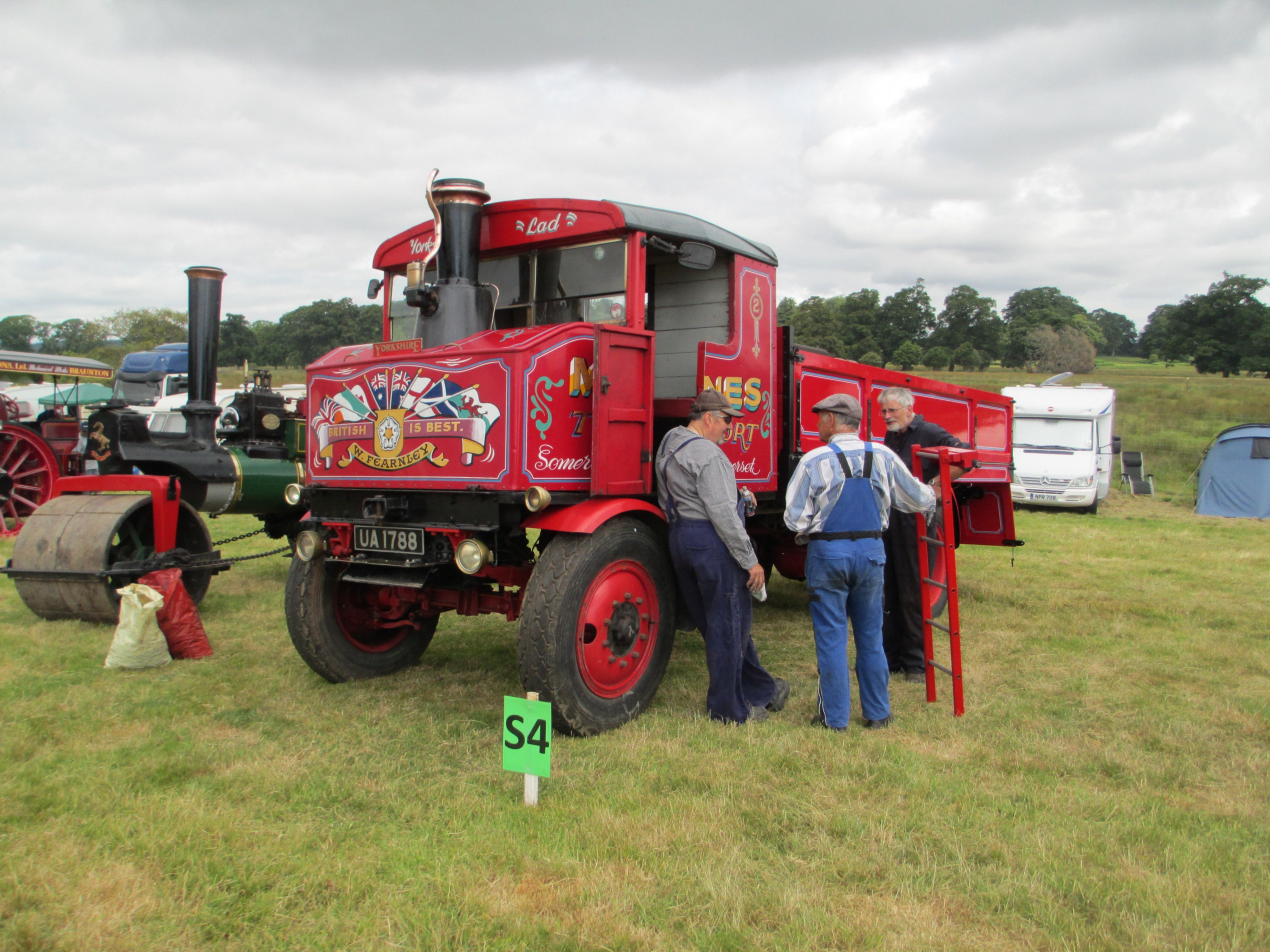 W G Steam waggon 1927 Yorkshire Patent Steam Waggon Co, Leeds Powderham Gathering 2014